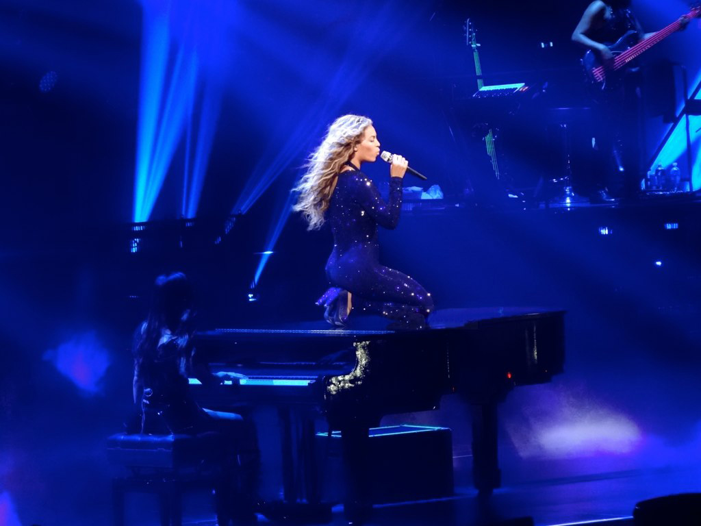 Beyonce performing "1+1" in Montreal in 2013 during The Mrs. Carter Show World Tour.